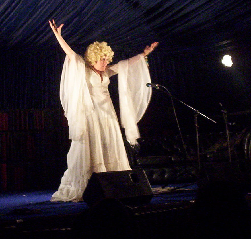 Pan's Person